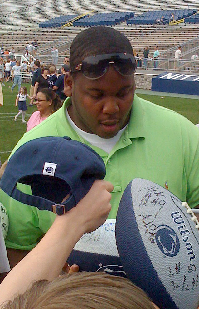 Former Nittany Lion and current New York Giant, Jay Alford, signs autographs for fans at Penn State's 2008 Blue & White game, April 19, 2008.